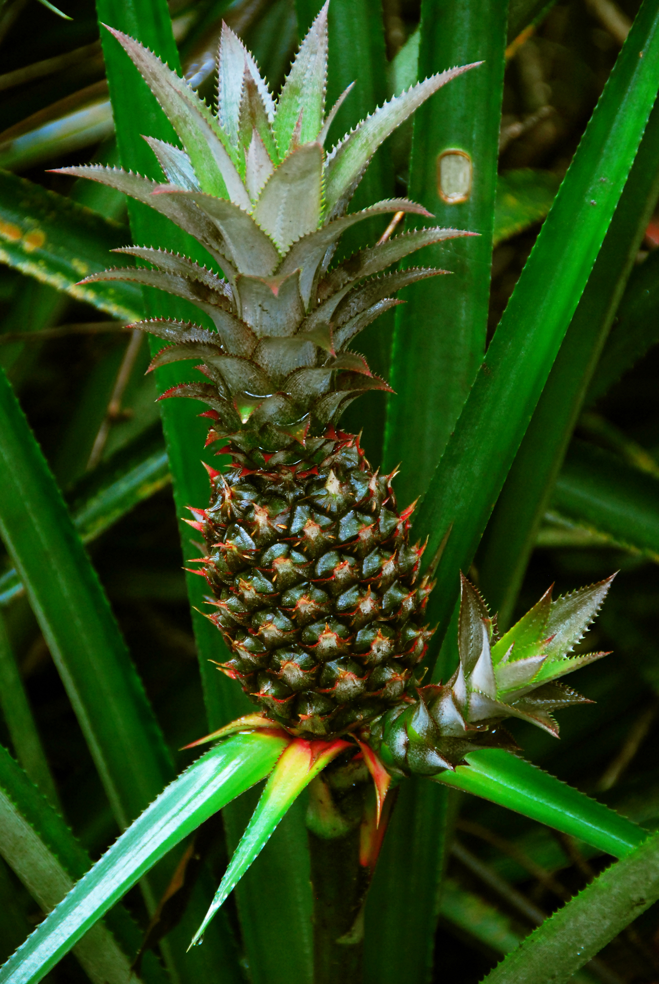 Photo of an unripe pineapple fruit (Ananas comosus).